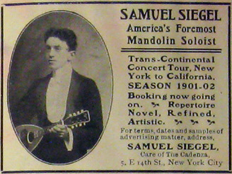 An 1902 advertisement from the Cadenza for a concert tour by Samuel Siegel.